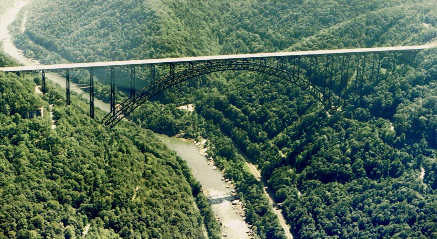 The New River Gorge as seen from a small fixed wing airplane.